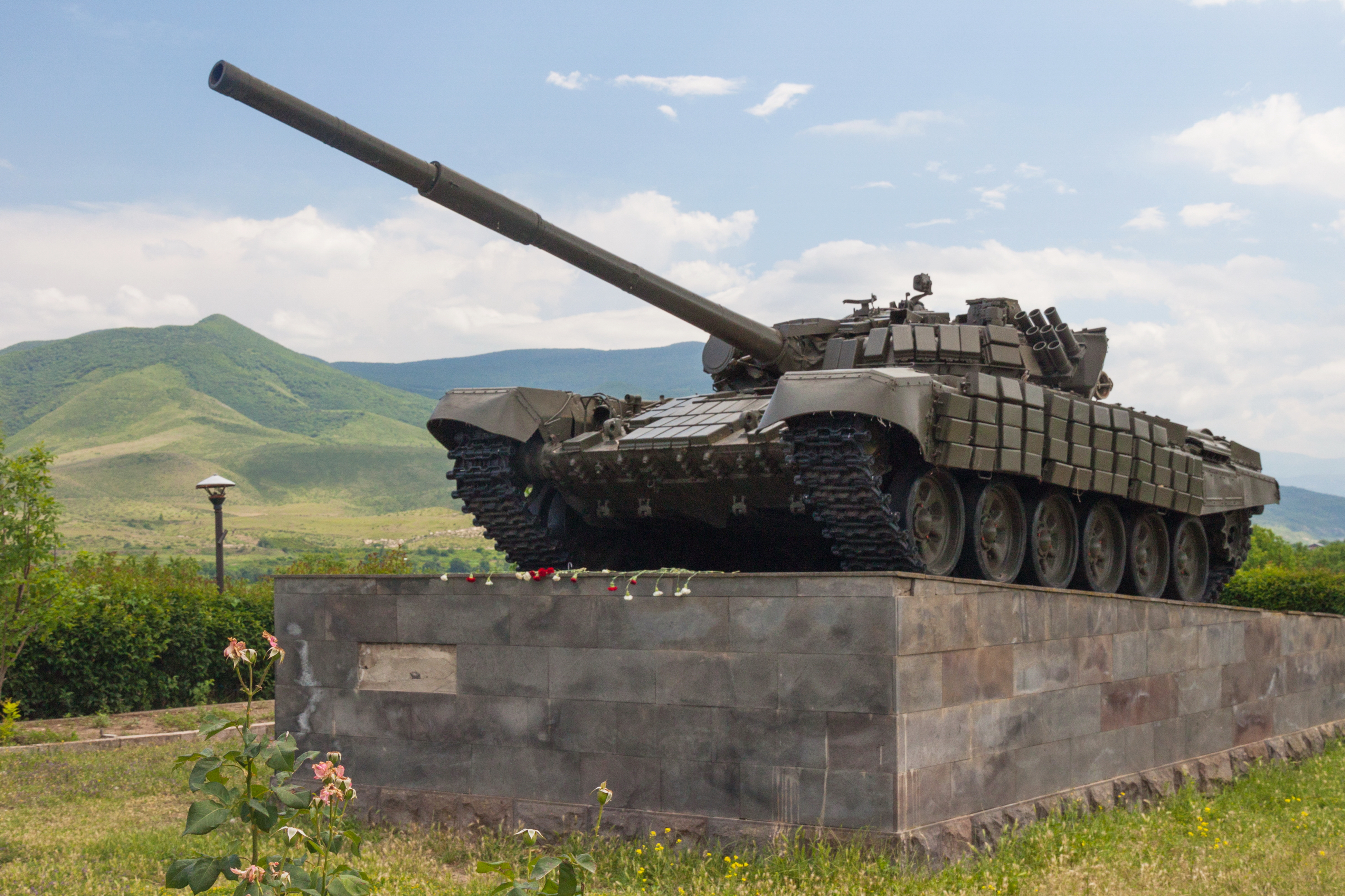 T-72. Stepanakert/Xankəndi, Nagorno-Karabakh.